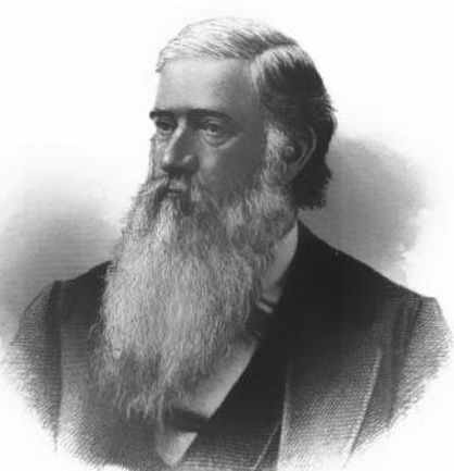 Francis B. Brewer, Congressman from New York